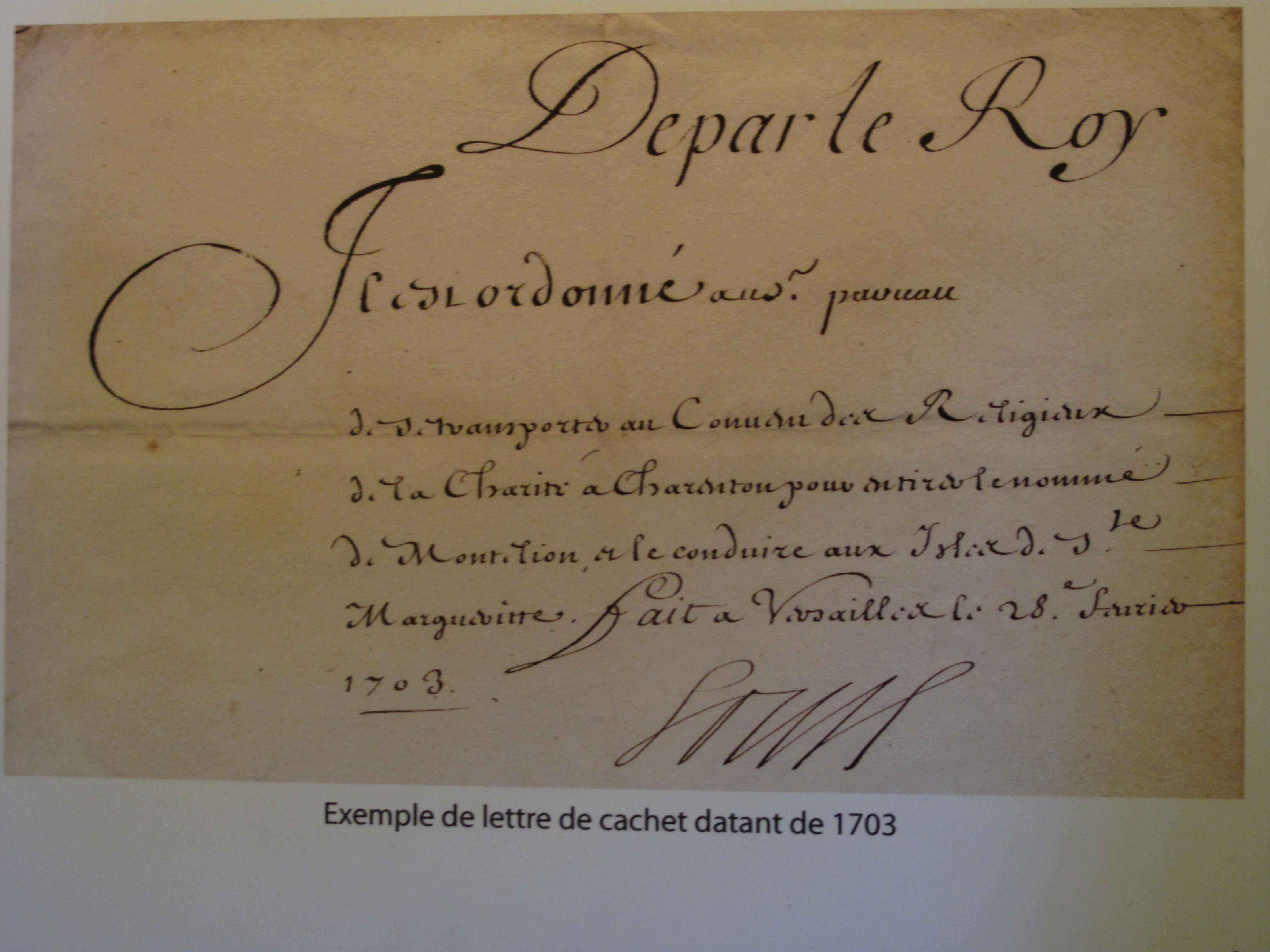 Lettre de cachet exposed in the fort-Royal of the Sainte-Marguerite island (Alpes-Maritimes, France). A lettre de cachet allowed the king of France to send into jail arbitrarly anybody he did not approved.